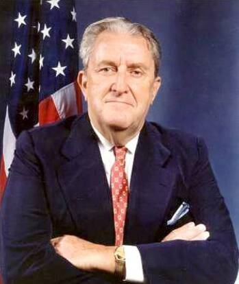 United States Ambassador Vernon A. Walters